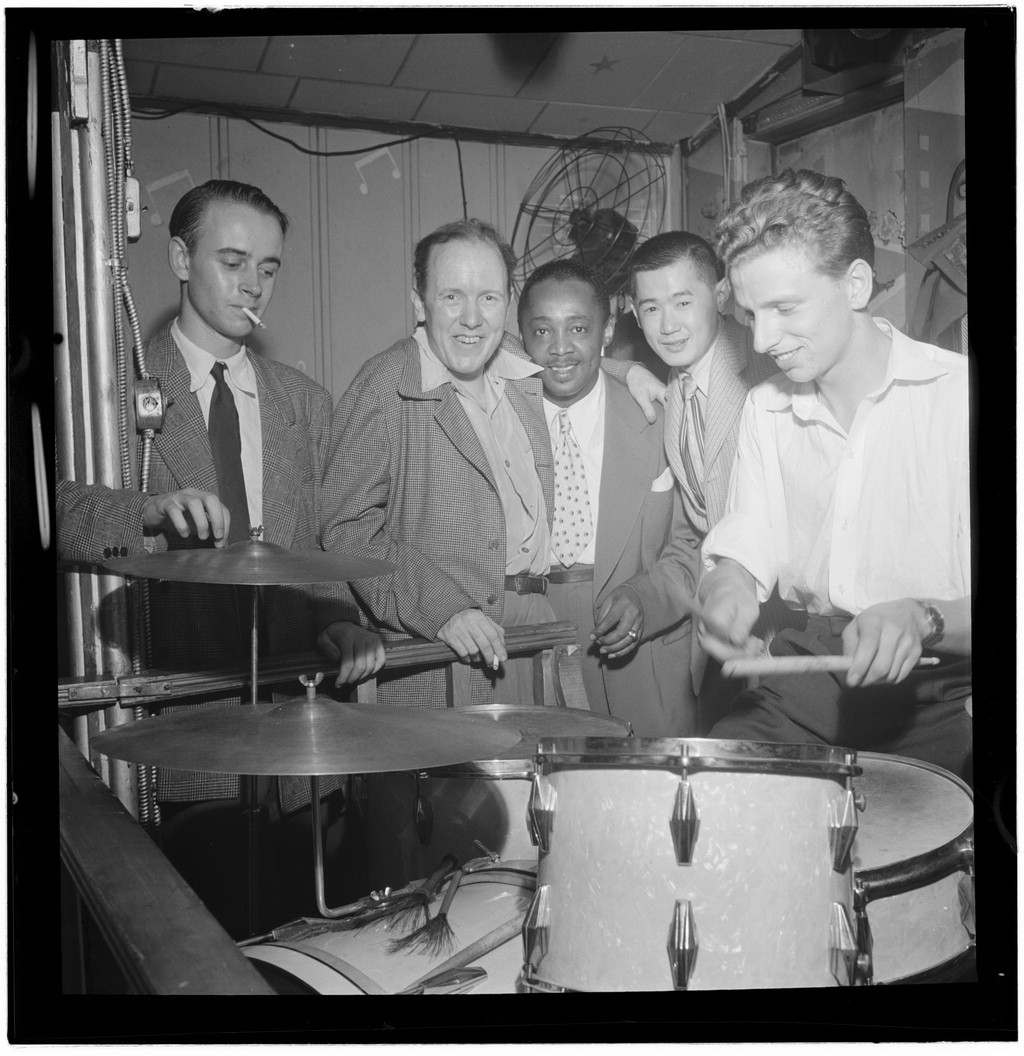 Gottlieb, William P., 1917-, photographer. [Portrait of Harry Lim, Yannich Bruynoche, and Joe Thomas, Pied Piper, New York, N.Y., between 1946 and 1948] 1 negative : b&w ; 2 1/4 x 2 1/4 in. Notes: Gottlieb Collection Assignment No. 211 Purchase William P. Gottlieb Forms part of: William P. Gottlieb Collection (Library of Congress). Subjects: Lim, Harry, 1919- Bruynoche, Yannich Thomas, Joe Jazz musicians--1940-1950. Drummers (Musicians)--1940-1950. Pied Piper Format: Portrait photographs--1940-1950. Group portraits--1940-1950. Film negatives--1940-1950. Rights Info: Mr. Gottlieb has dedicated these works to the public domain, but rights of privacy and publicity may apply. Repository: (negative) Library of Congress, Prints & Photographs Division, Washington D.C. 20540 USA, Part Of: William P. Gottlieb Collection (DLC) 99-401005 General information about the Gottlieb Collection is available at Persistent URL: Call Number: LC-GLB23- 1369 This work is from the William P. Gottlieb collection at the Library of Congress. Rights and restrictions.In accordance with the wishes of William Gottlieb, the photographs in this collection entered into the public domain on February 16, 2010.